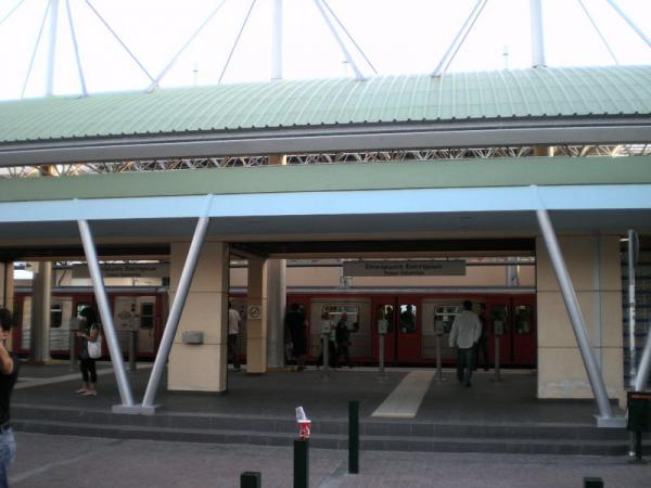 Platform of Irakleio metro station, ISAP, Athens